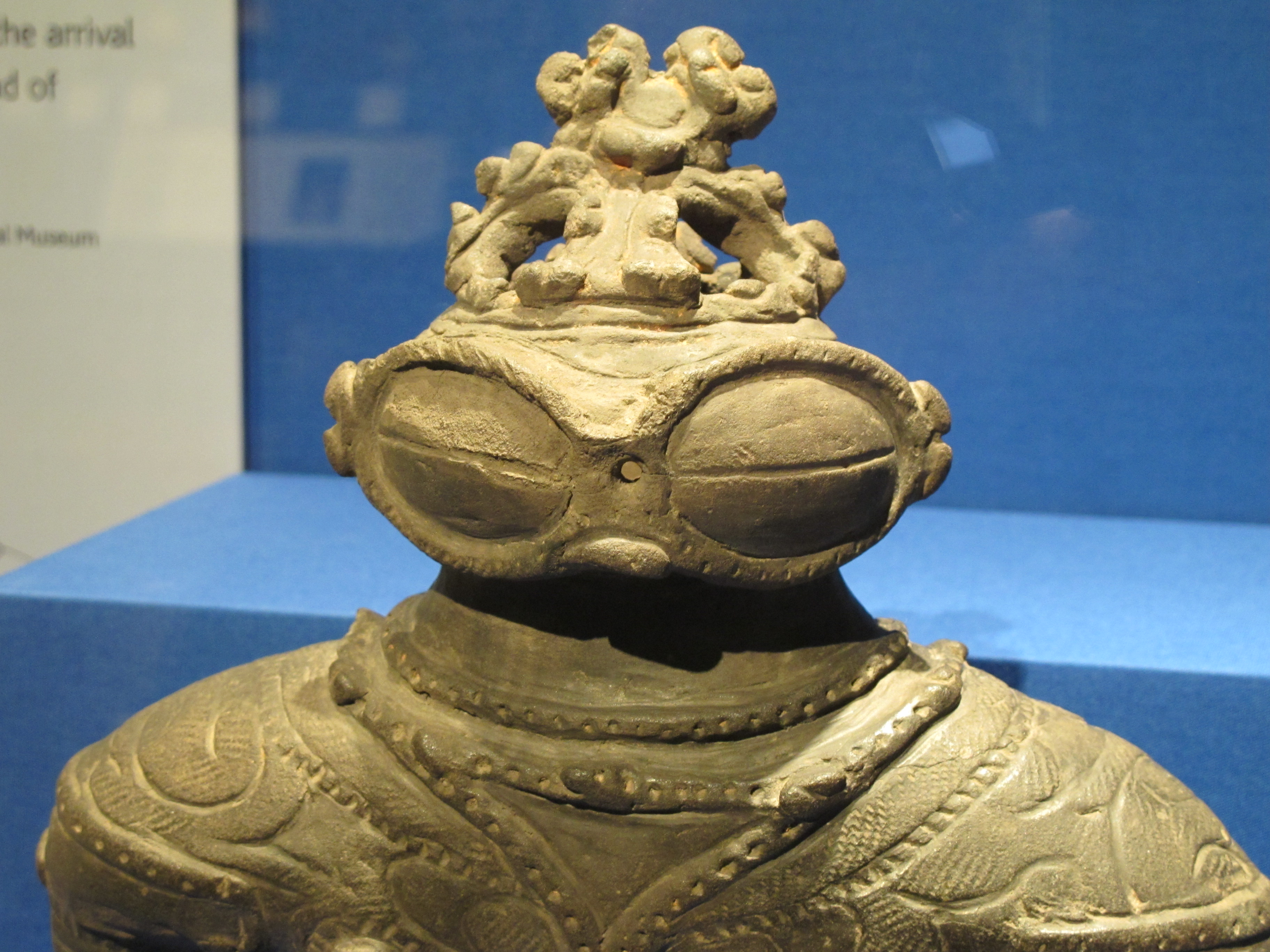 From kamegaoka, Aomori prefecture. Final Jomon. 1000-300 BC.